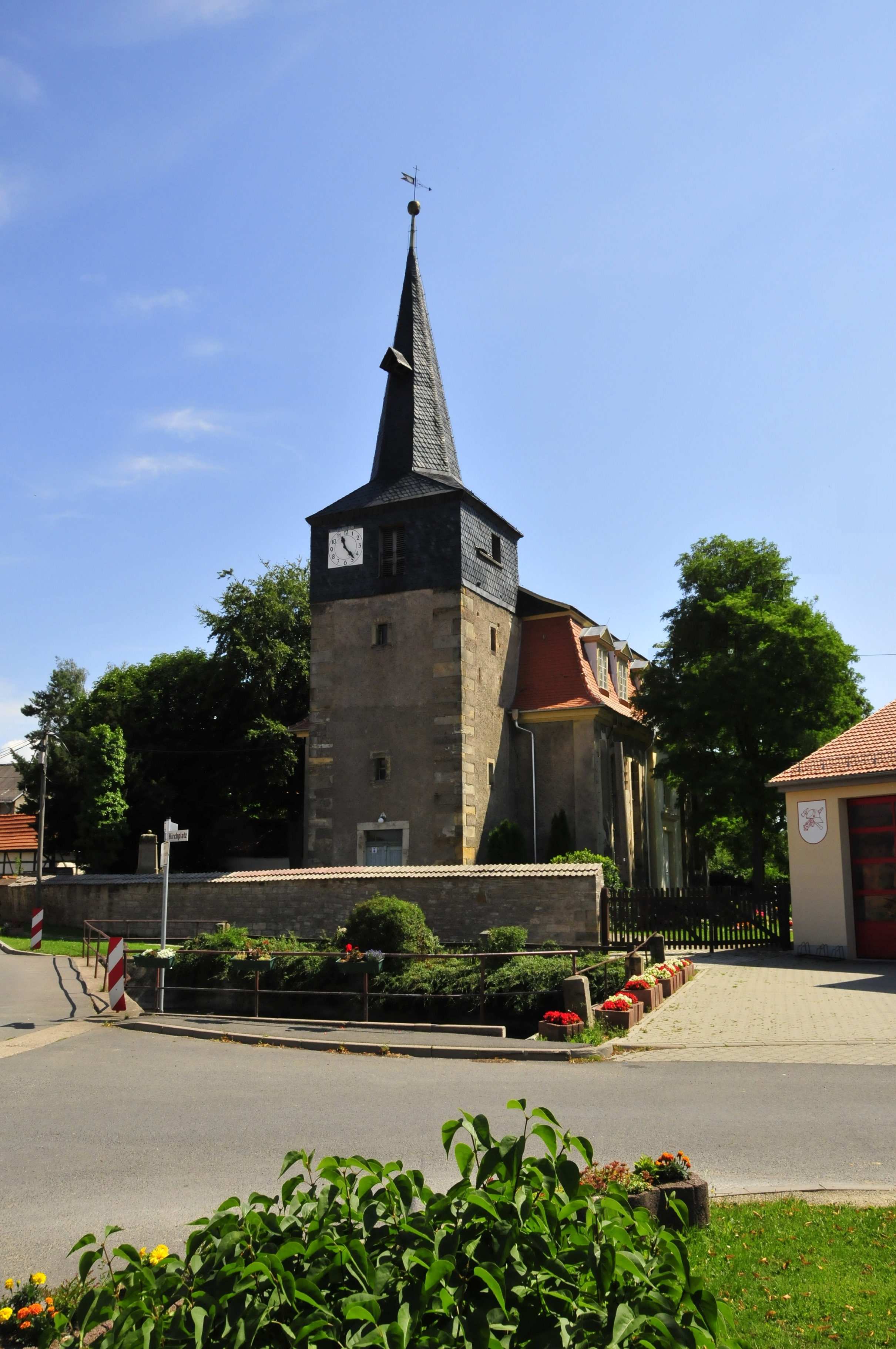 Bienstädt, church